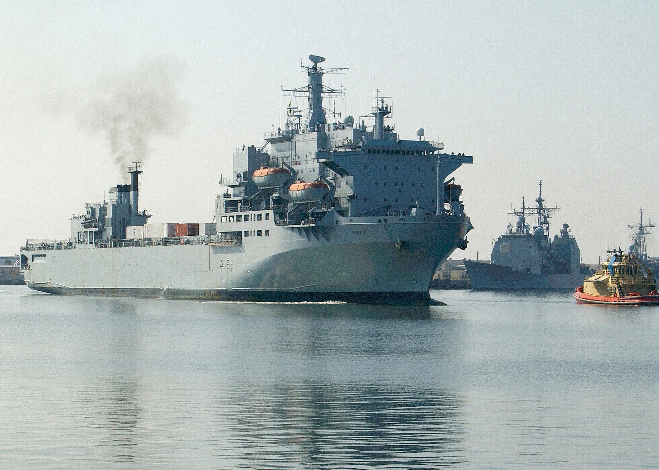 Mayport, Fla. (June 4, 2006) - The British Royal Fleet Auxiliary Argus (A135), Belfast, UK, approaches the pier at U.S. Naval Station Mayport. The ship is conducting a scheduled port visit.